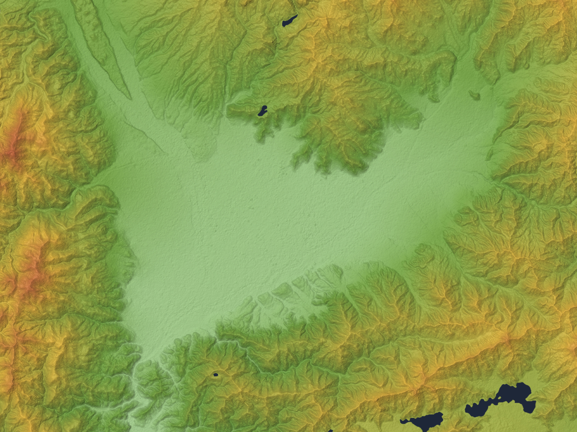 Kofu Basin in Yamanashi Prefecture, Honshu, Japan.